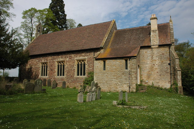 Taynton Church Taynton church is dedicated to St Lawrence. The church is unusual in that it was built during the Commonwealth, between 1650 and 1660. It replaced an earlier medieval church which was situated almost a mile to the north-east; this earlier church was destroyed in the English Civil War in 1643. The other unusual feature is that the church lies on a north/south orientation.